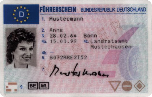 Specimen for the European driving licence used in Germany, front side